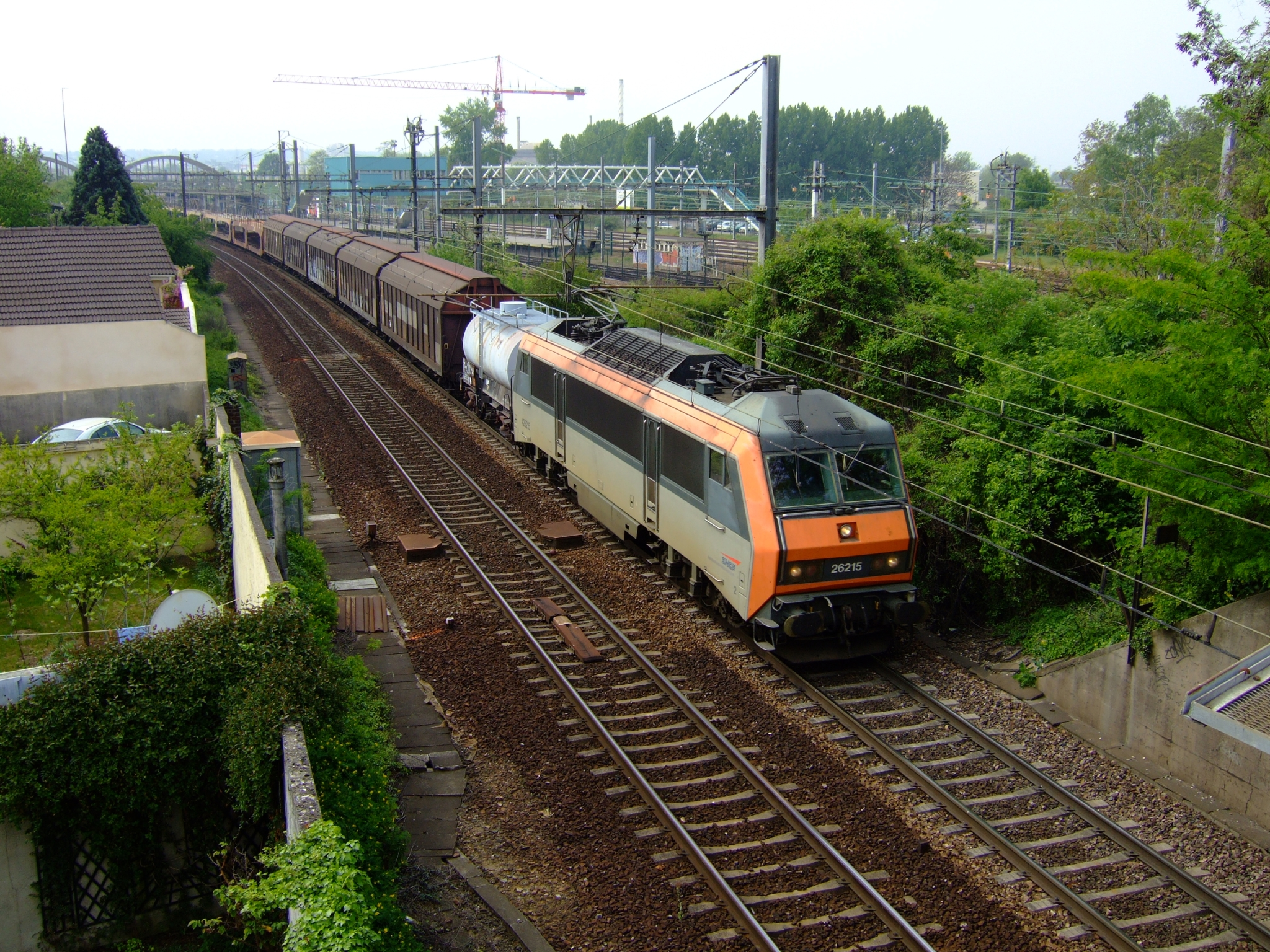 Sucy en Brie, France. Freight train coming into the "Grande ceinture complémentaire" network inter yard in suburb of Paris. In back Sucy-Bonneuil station on RER network (suburb rail).